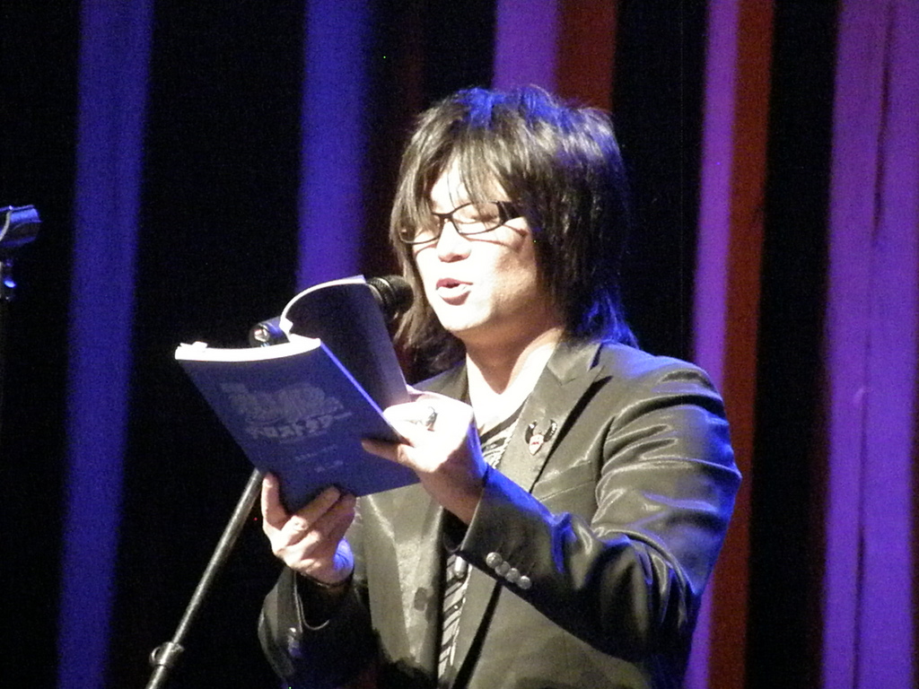 Toshiyuki Morikawa actually dubbed some Japanese Naruto LIVE...or so they said. It seemed off, but that could've been from the huge tv monitor delays.